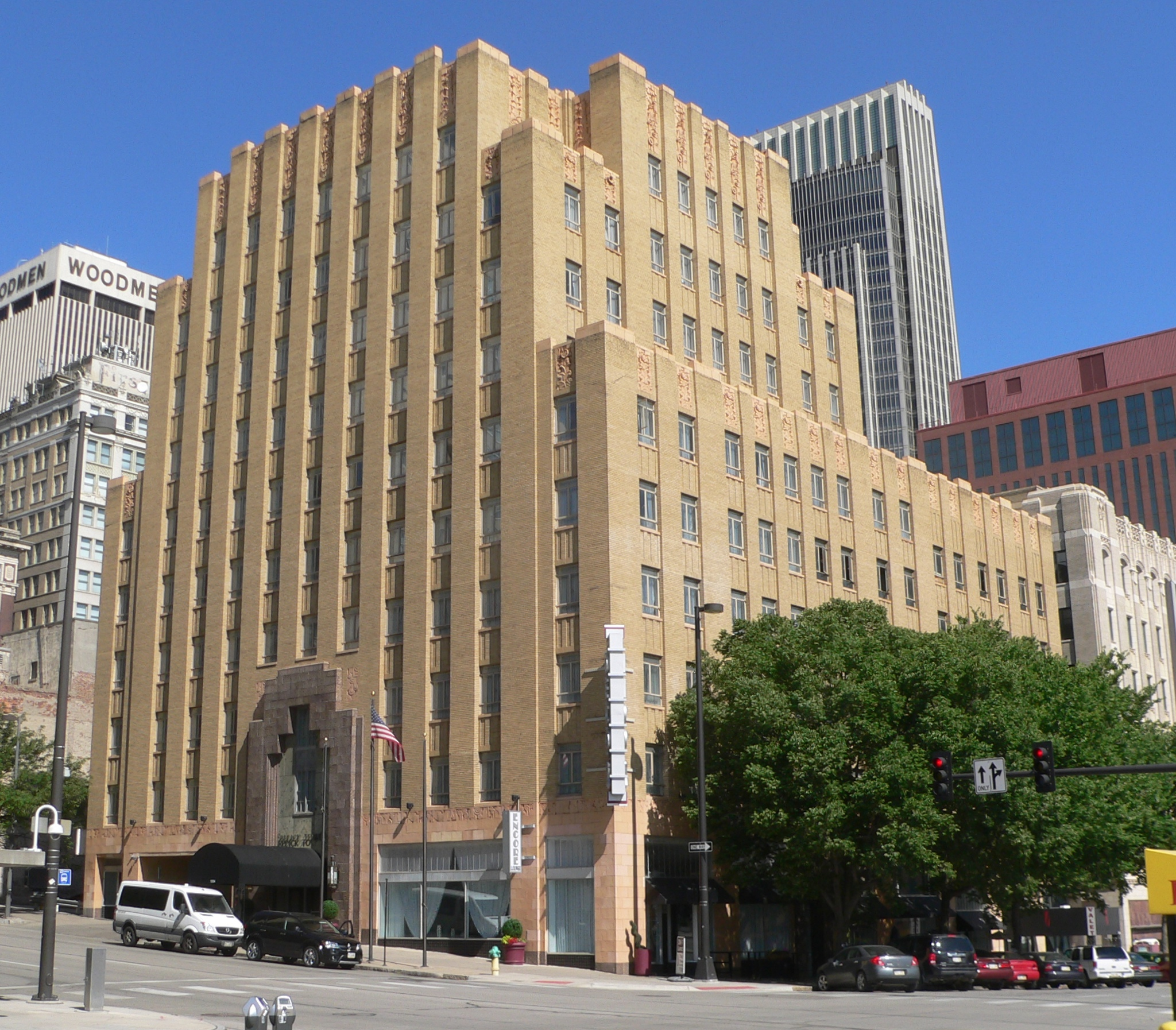 Redick Tower, now operating as Hotel Deco; located at 1504 Harney Street (northwest corner of 15th and Harney) in Omaha, Nebraska. View is from the southeast.